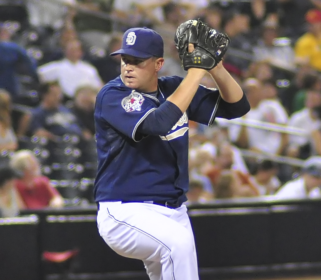 Joe Thatcher of the San Diego Padres on July 21, 2009